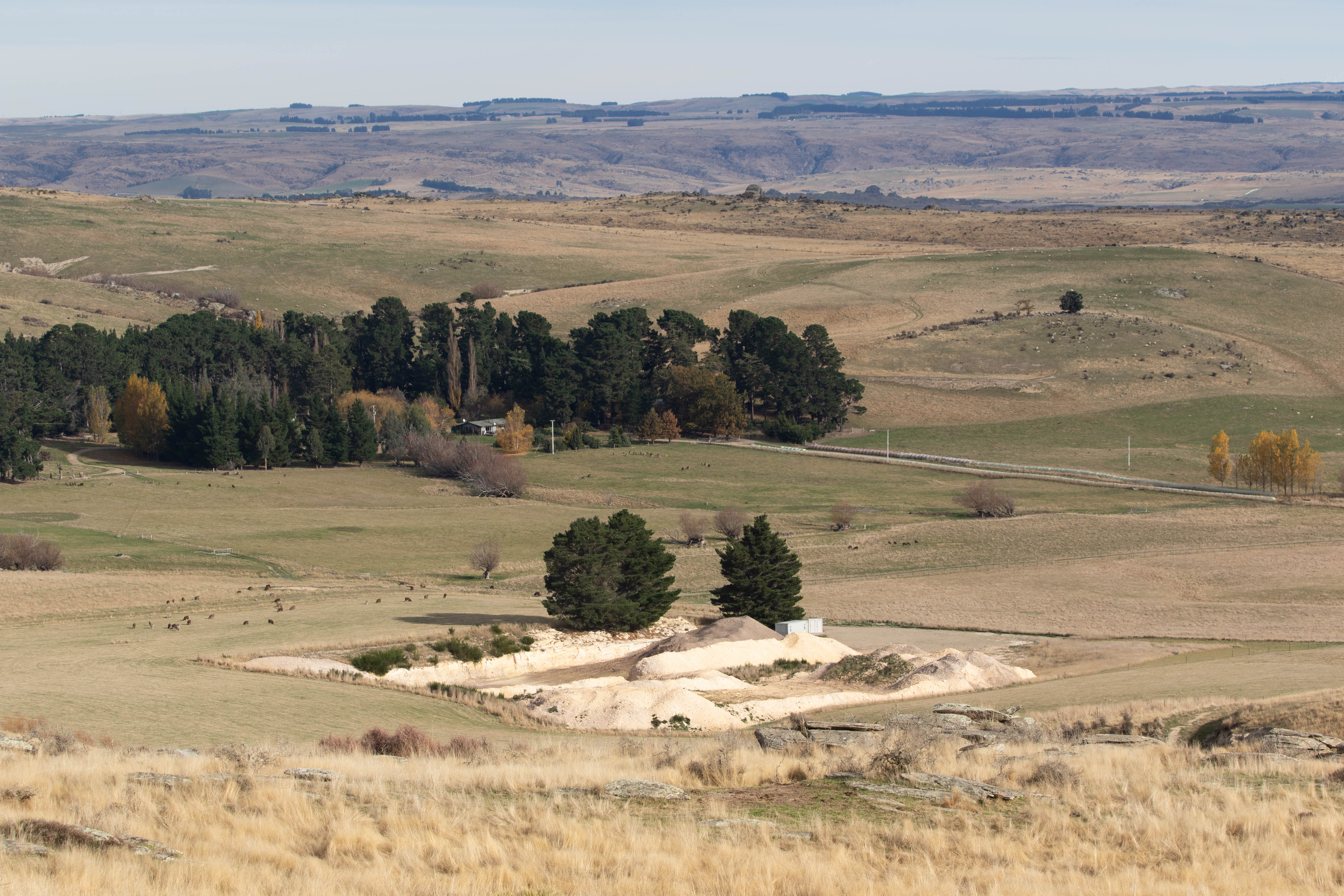 A pit in Foulden Marr near Middlemarch in Otago.